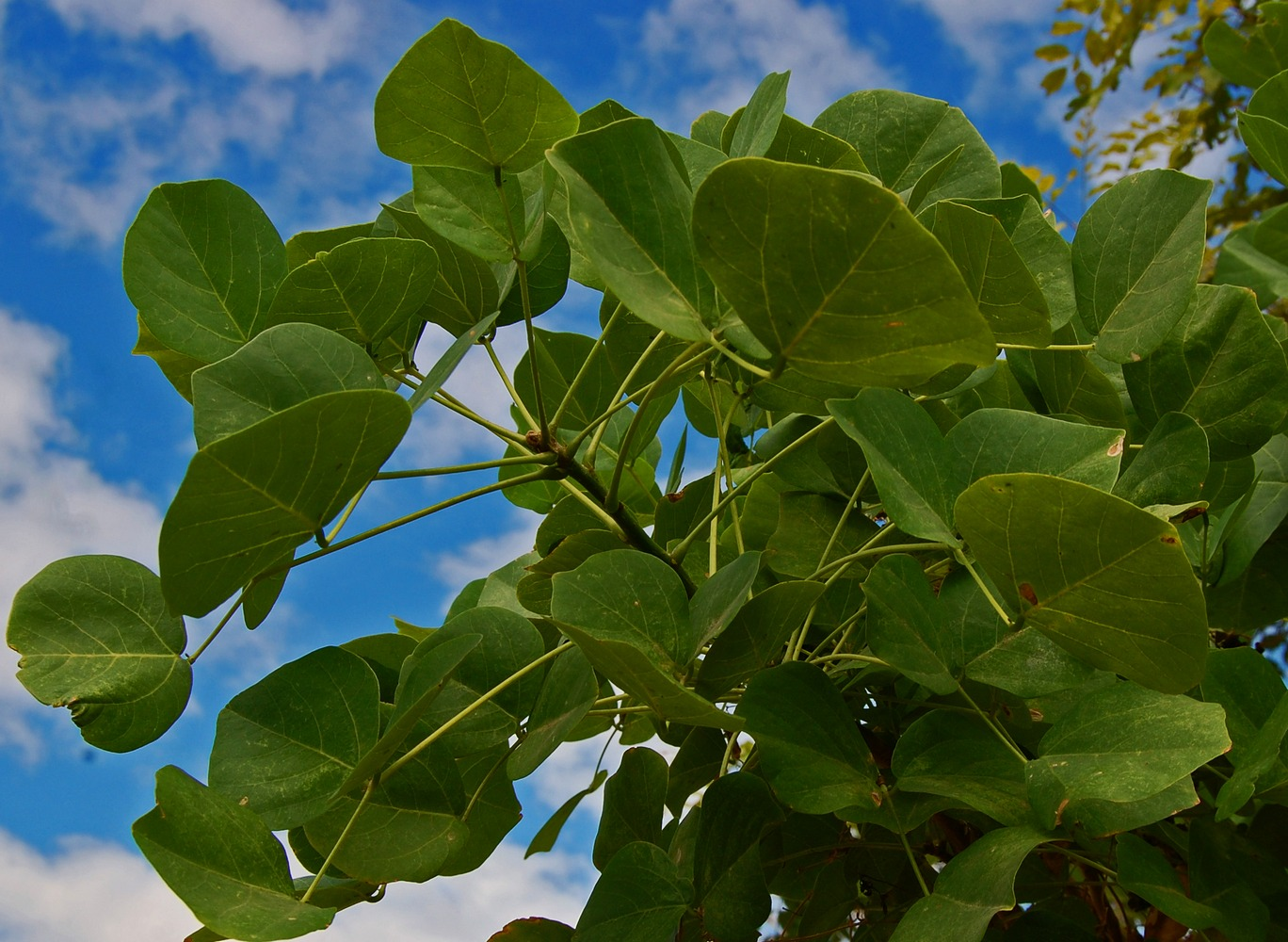 Erythrina variegata leaves. Kupang, West Timor, Indonesia.